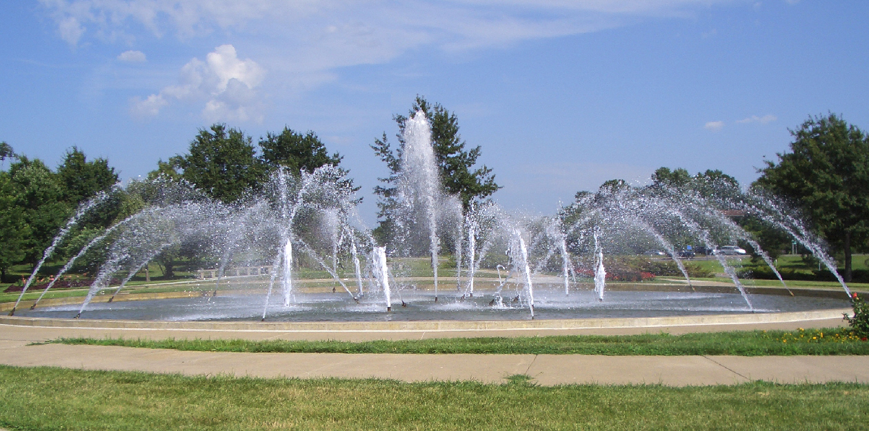 Northland Fountain, Kansas City, Missouri